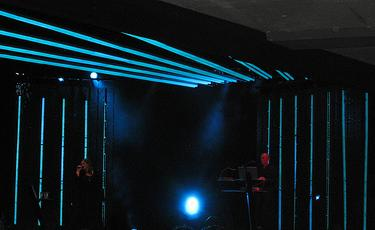 Yazoo on stage in the Columbiahalle in Berlin on May 30, 2008. The audience seemed to know the lyrics to the 25+ year old hits just as well as Alison Moyet. Perhaps not so strange since the average age of the audience, as this photo illustrates, must have been on the "wrong" side of 40.